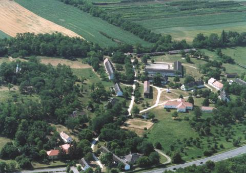 Szántód, Hungary, aerialphotography